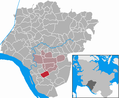 This map shows the area of the municipality Elskop in the Kreis (district) Steinburg, Schleswig-Holstein, Germany.